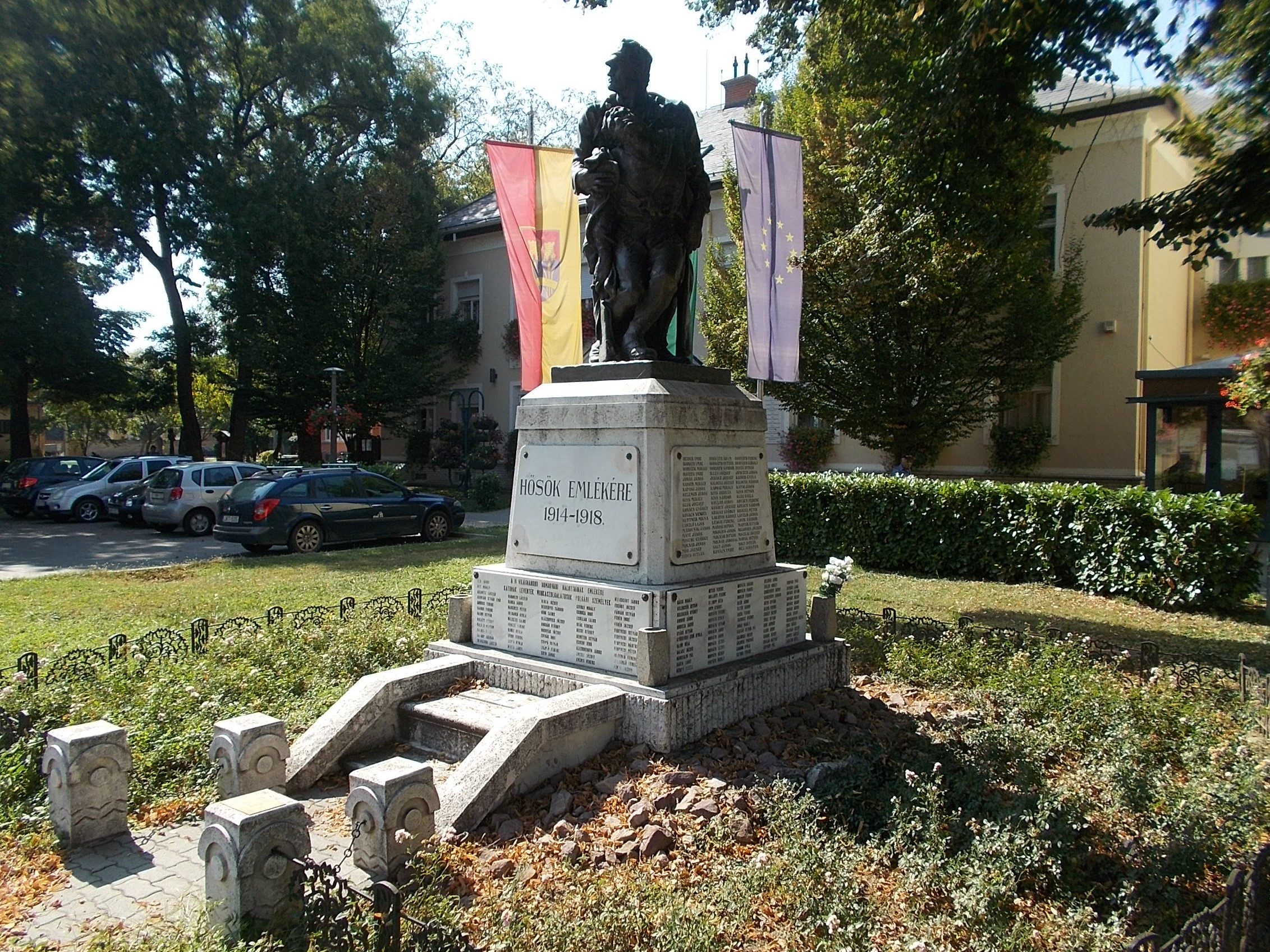 Statue of Heroes by Károly Fetter (1925 works, erected in 1926, in memory of the heroes of World War I., WWI monument, Bronze statue on limestone base, cityscape significant) AND Town Hall Central Office of Dombóvár. - Hunyadi tér, Downtown, Dombóvár, Tolna County, Hungary.